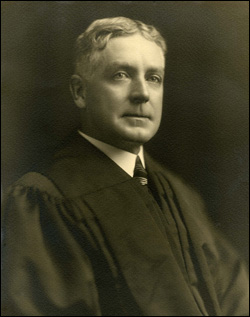 A portrait photograph of Benjamin B. Cunningham (1874–January 2, 1946), who was a New York judge.